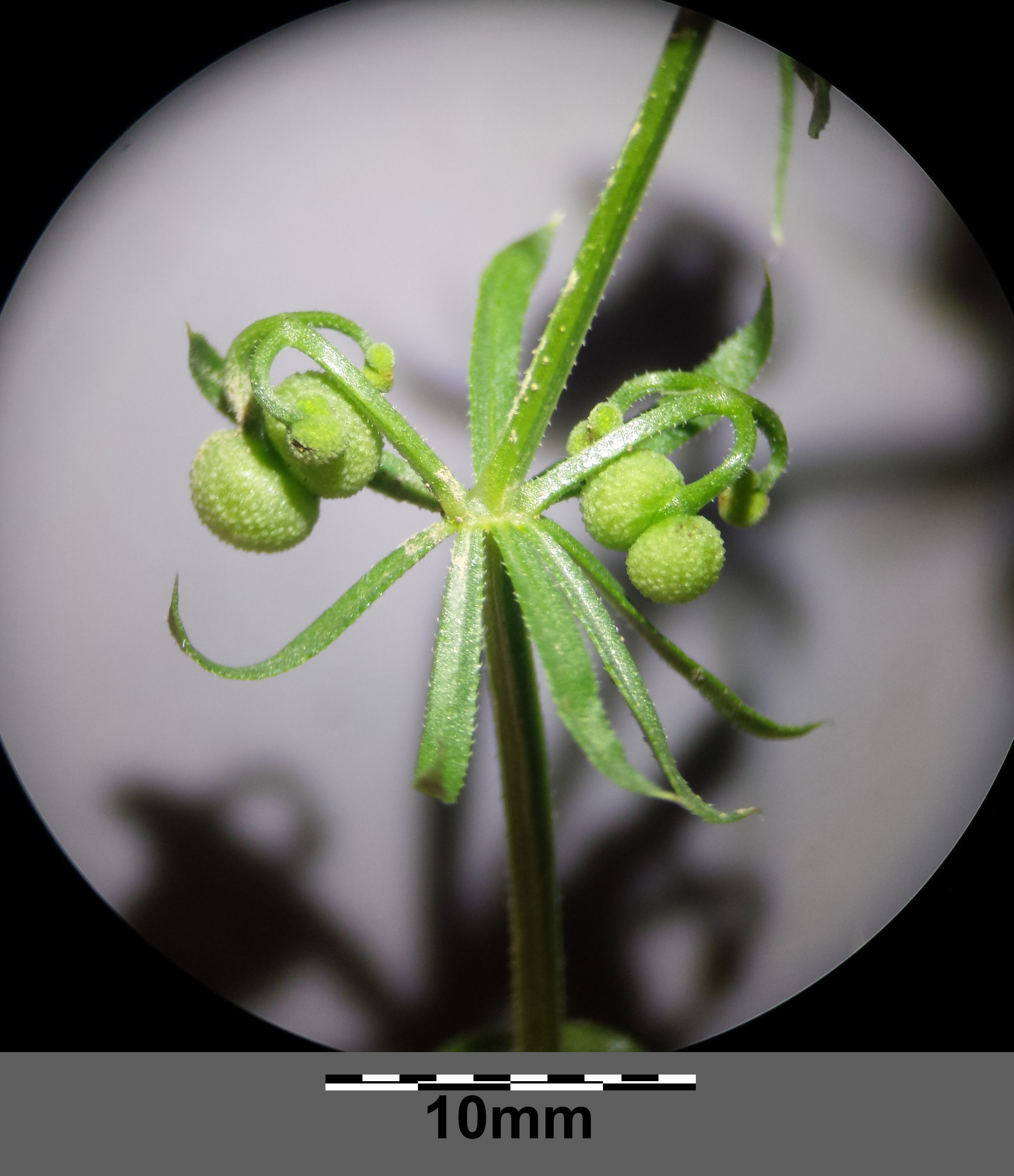 Infructescence Taxonym: Galium tricornutum ss Fischer et al. EfÖLS 2008 ISBN 978-3-85474-187-9 Location: Dernberg, Nappersdorf-Kammersdorf, district Hollabrunn, Lower Austria - ca. 270 m ü. A. Habitat: field